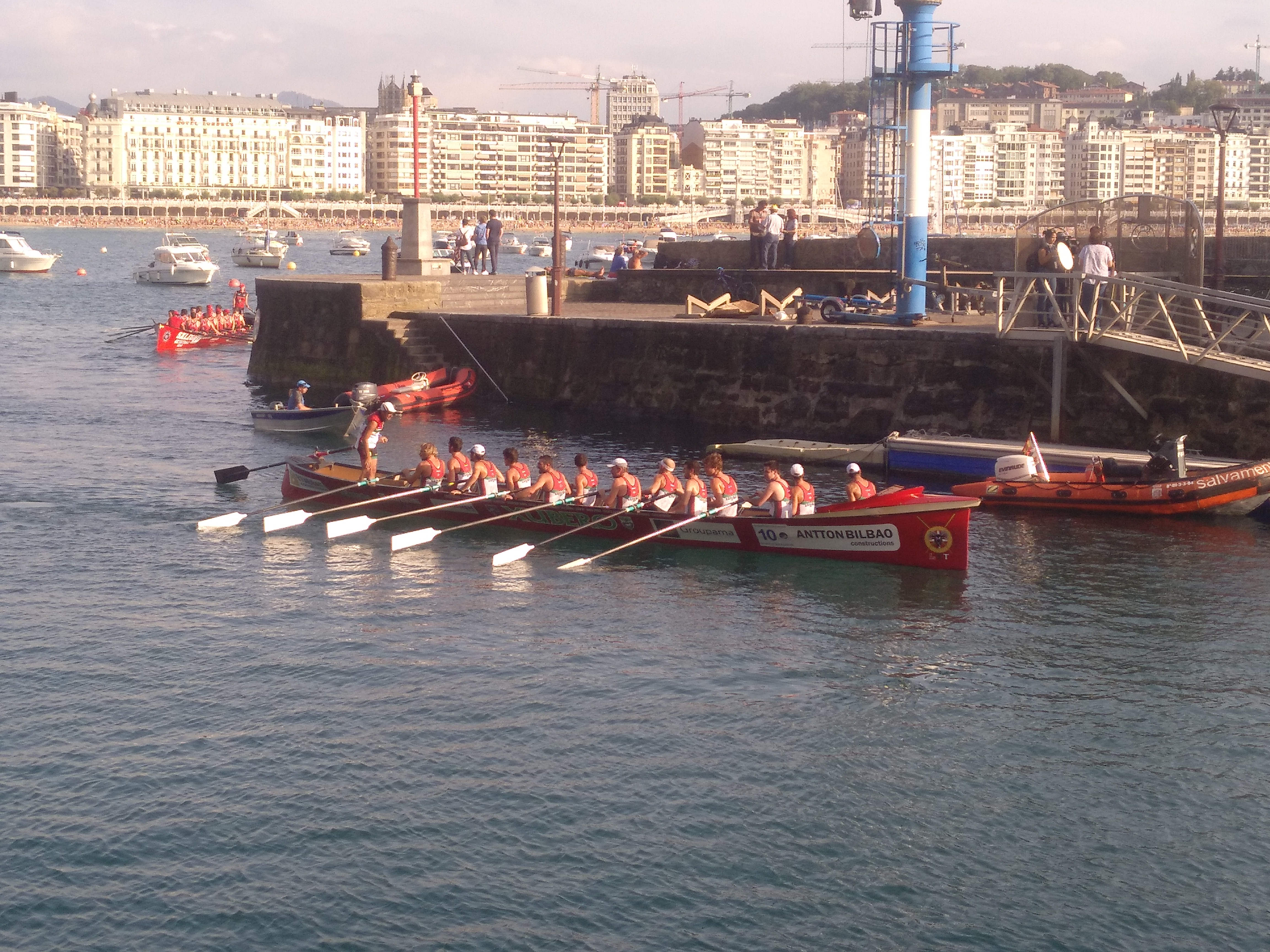 Lapurdiko Arraun Taldea, Flag of La Concha, 2018